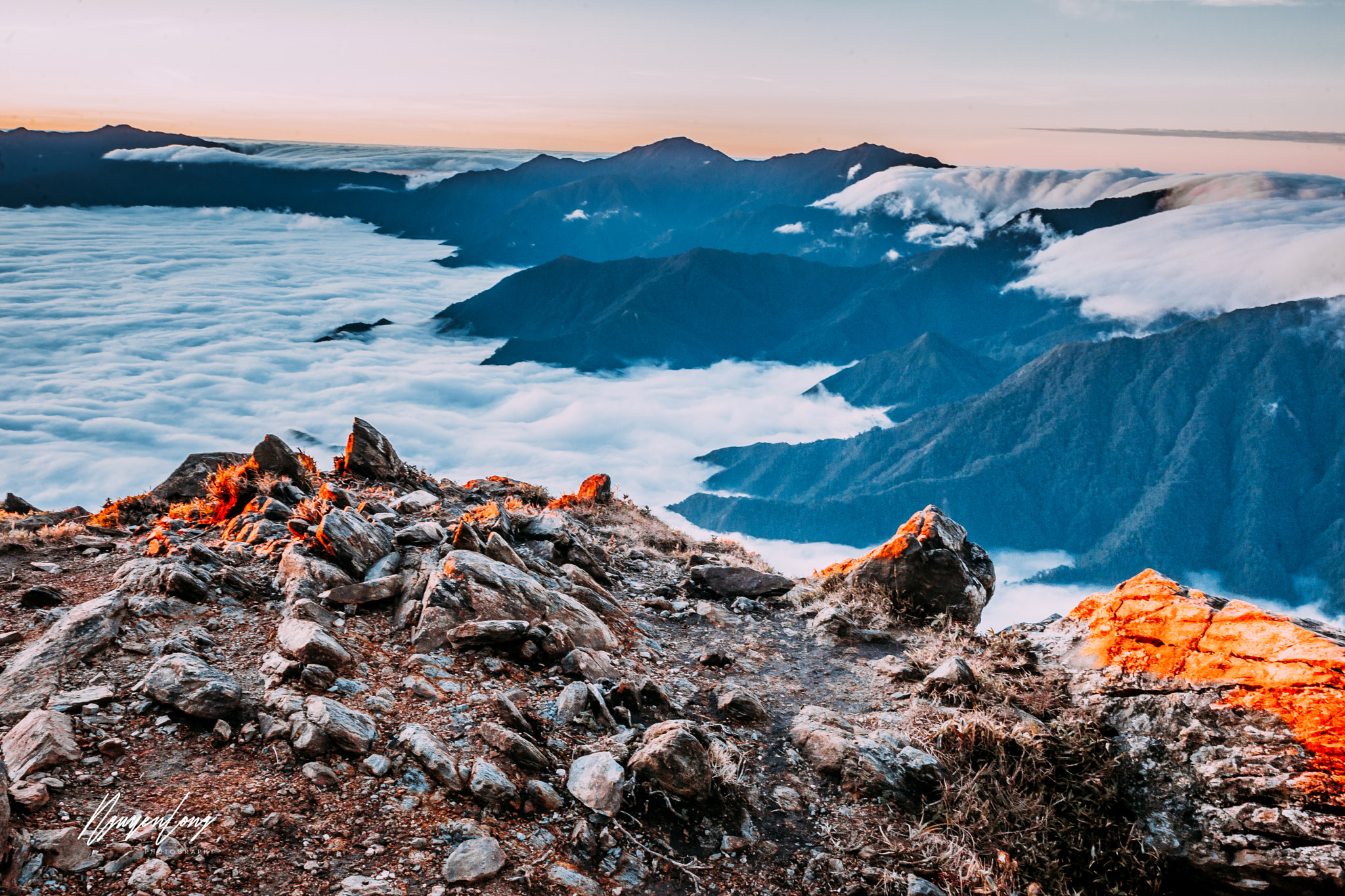 500px provided description: Phu Song Sung [#mountain ,#glacier ,#cliff ,#peak ,#hiking ,#rocky ,#mountain peak ,#hiker ,#mountain range ,#rock formation ,#rugged ,#mountainous]